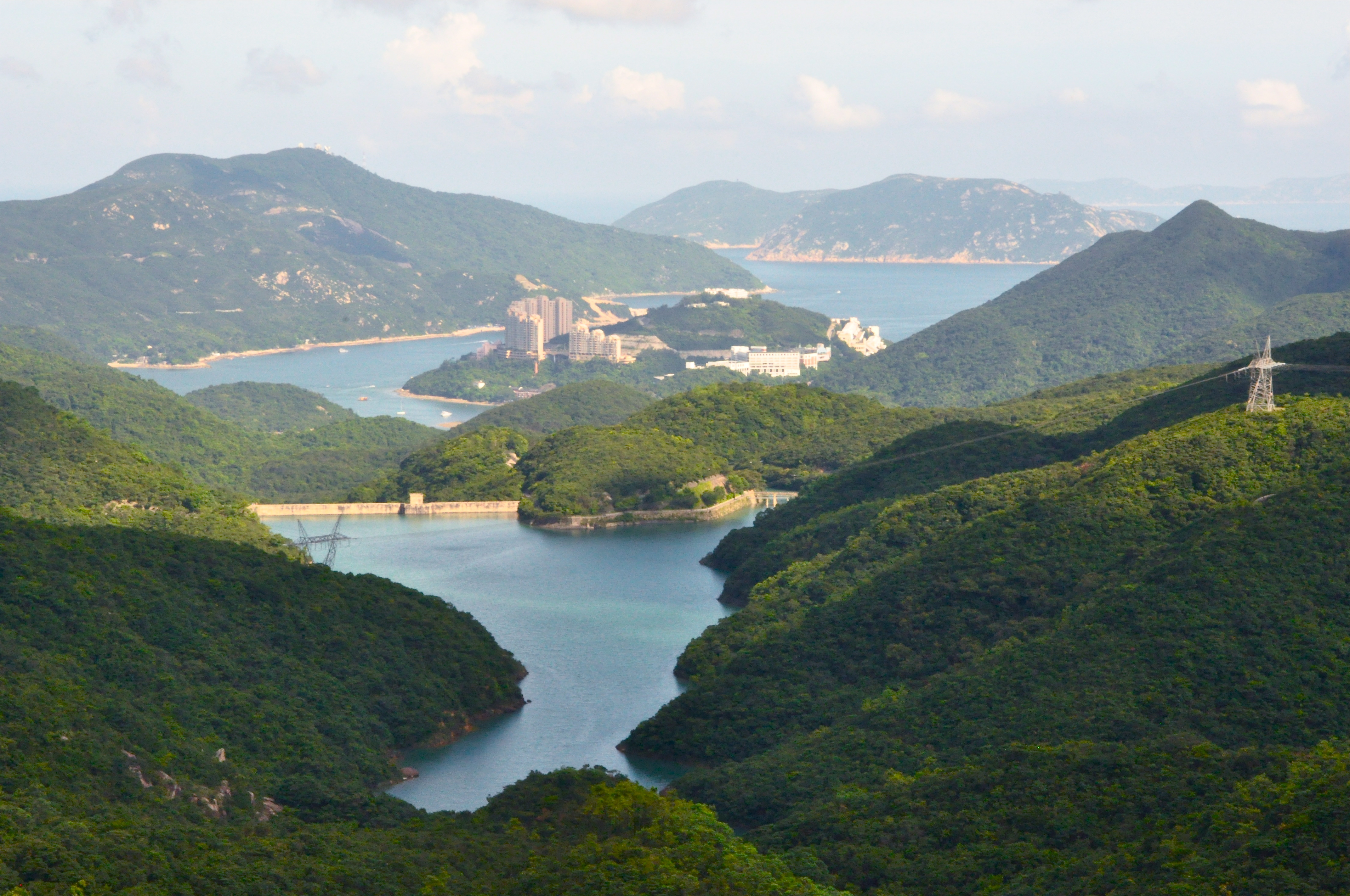 HK Island South Tai Tam Tuk Reservoir